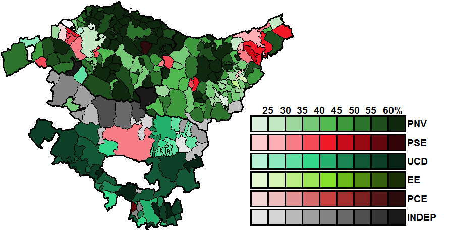 Most-voted party in Basque Country municipalities, showing vote share obtained, in the Spanish general election, 1977.